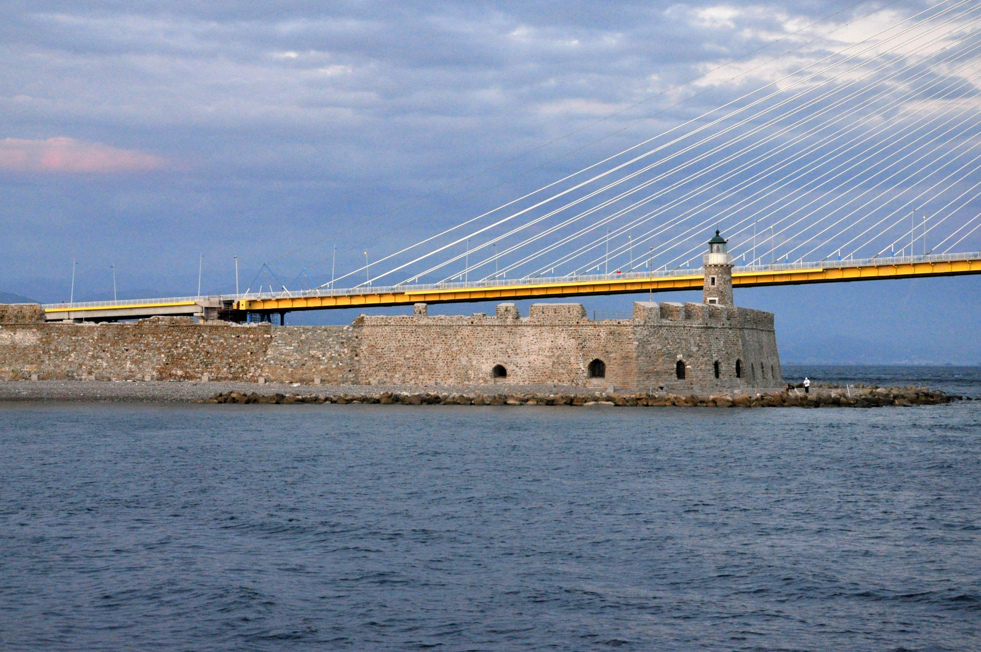 part of the Antirio fort and the Rio-Antirio bridge, Greece